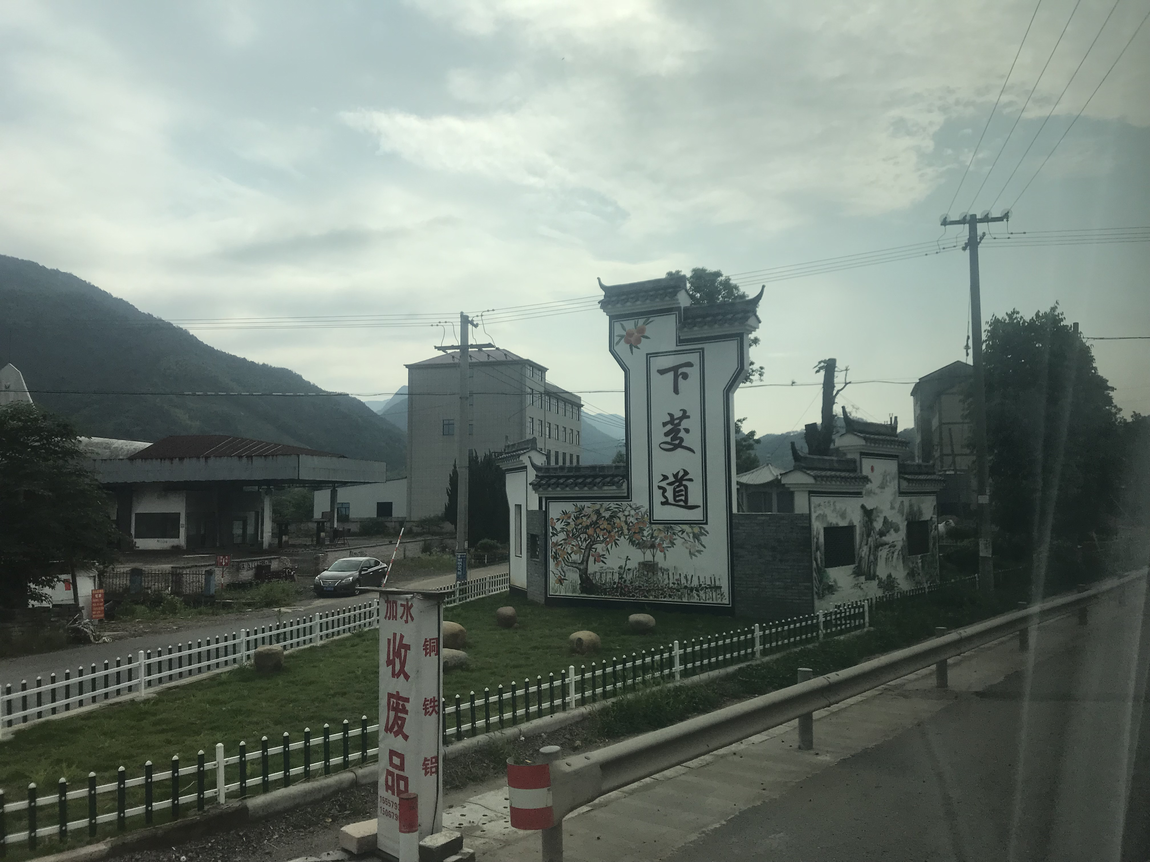 201805 Xiajiaodao Village